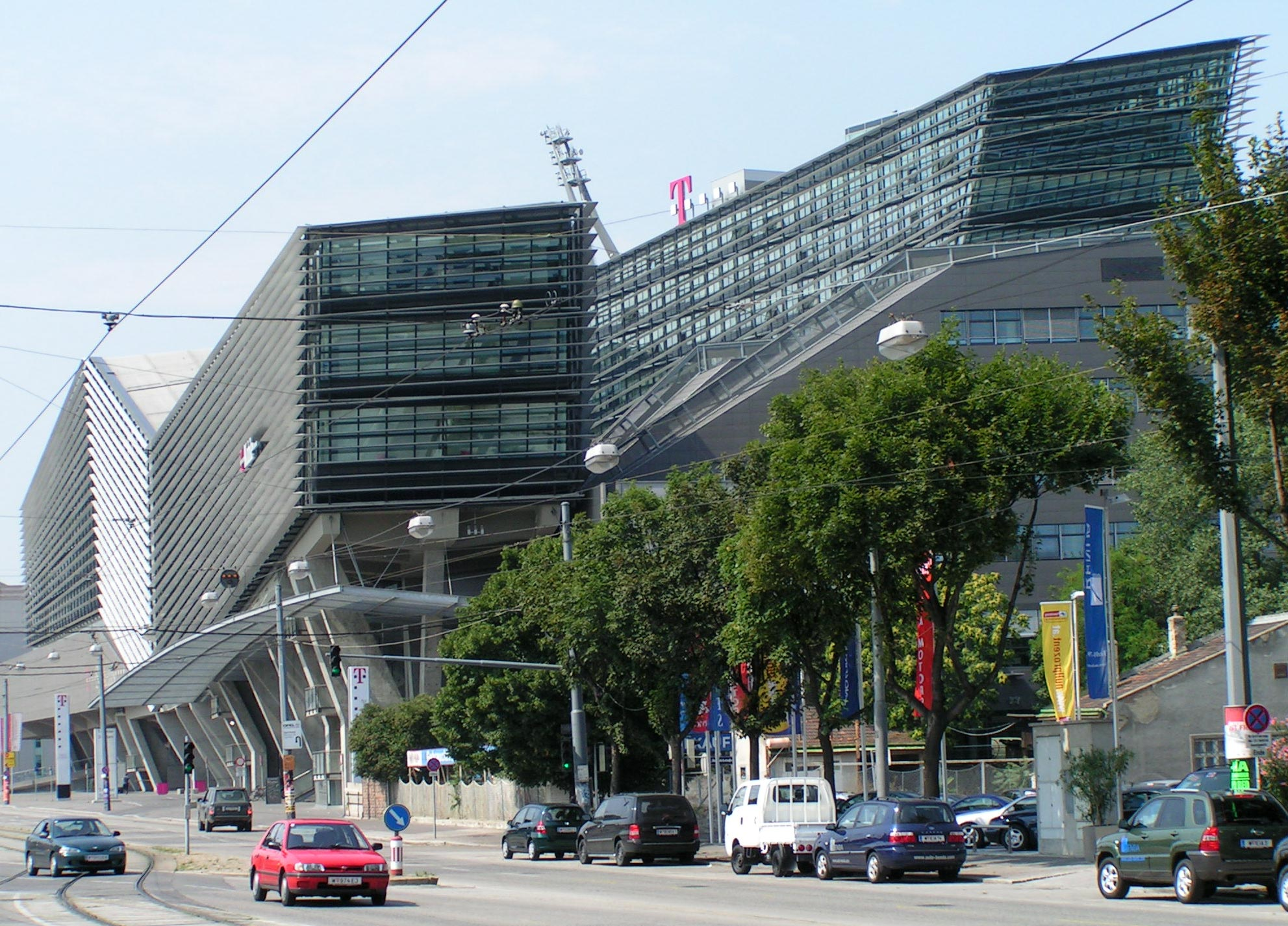 The headquarters of the cellphone company T-Mobile in Vienna. Seen from the Rennweg-Street.